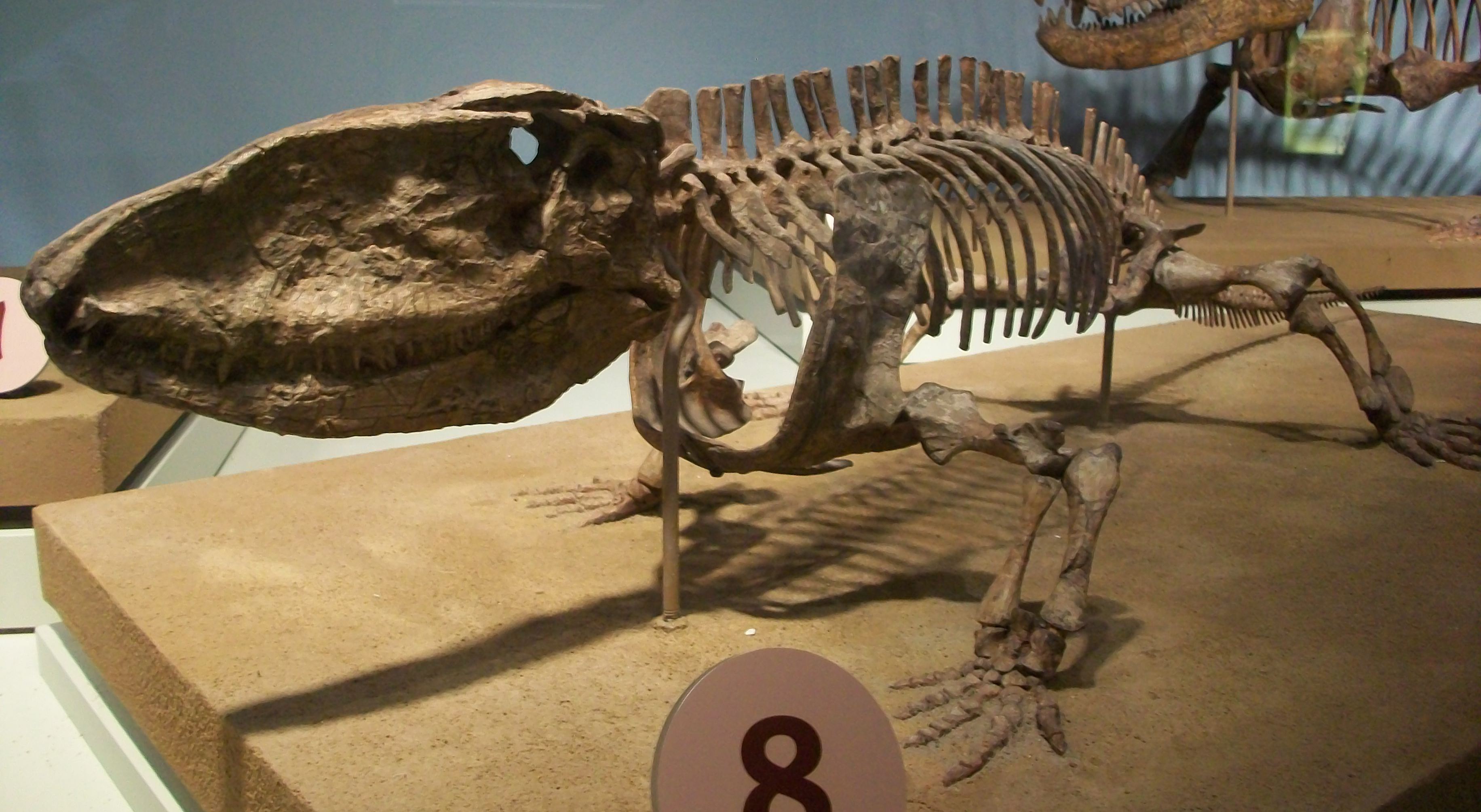 Mounted skeleton of Ophiacodon mirus in the Field Museum of Natural History.